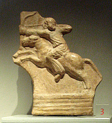 Parthian horseman performing a shot